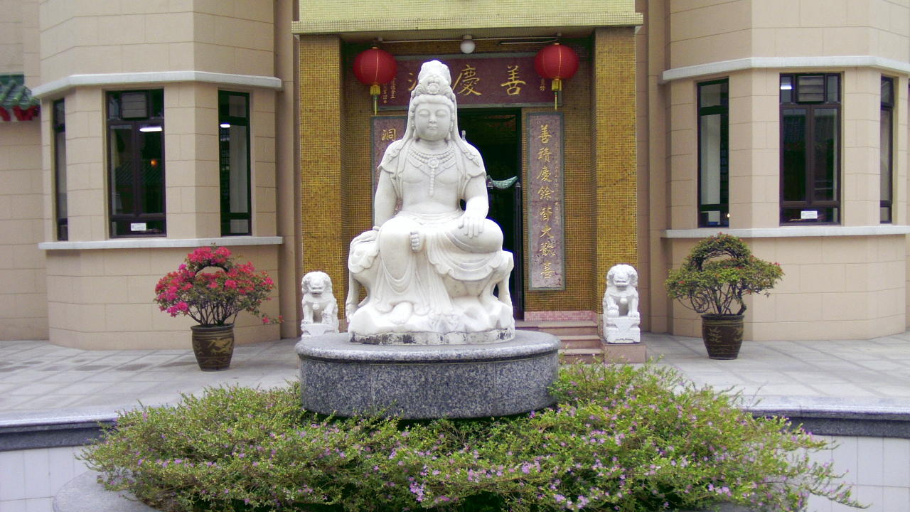 Avalokiteśvara_Status_at_Tuen_Mun_Sin_Hing_Tung 中文（香港）: 香港新界屯門善慶洞供奉的觀世音菩薩雕像